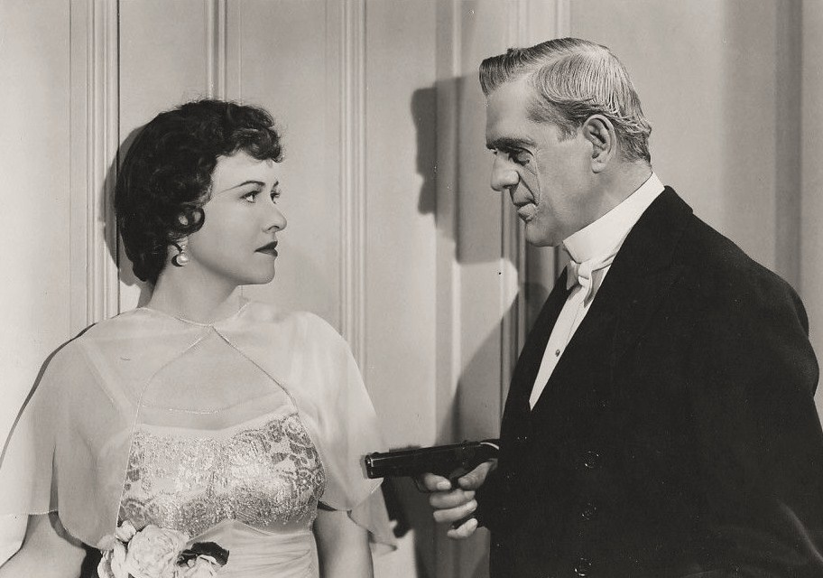 Margaret Lindsay & Boris Karloff in British Intelligence - publicity still (cropped)